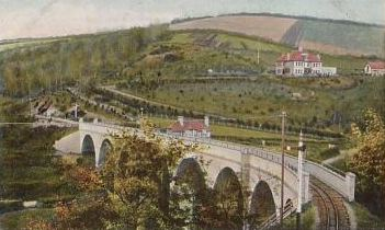 Chelfham railway station and viaduct in Devon, England, circa 1904 (from a contemporary postcard). This image is a scan from a contemporary, hand-coloured photographic postcard, one of a series published by The Pictorial Stationary Company, London, as part of their "Peacock" series, in 1904/5. It shows the railway as it was when built, a scene that is still very recognisable, although somewhat different, today.